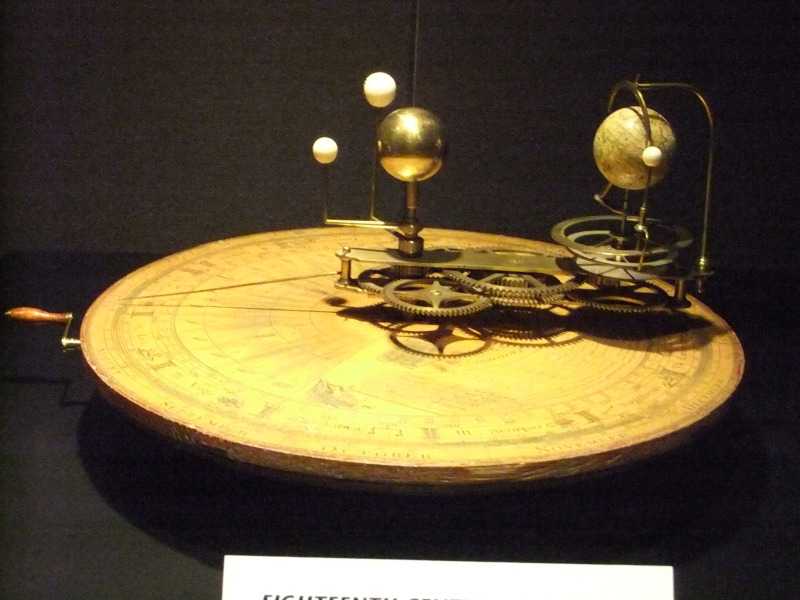 Eighteenth century orrery, World Museum Liverpool, England. Heliocentric.